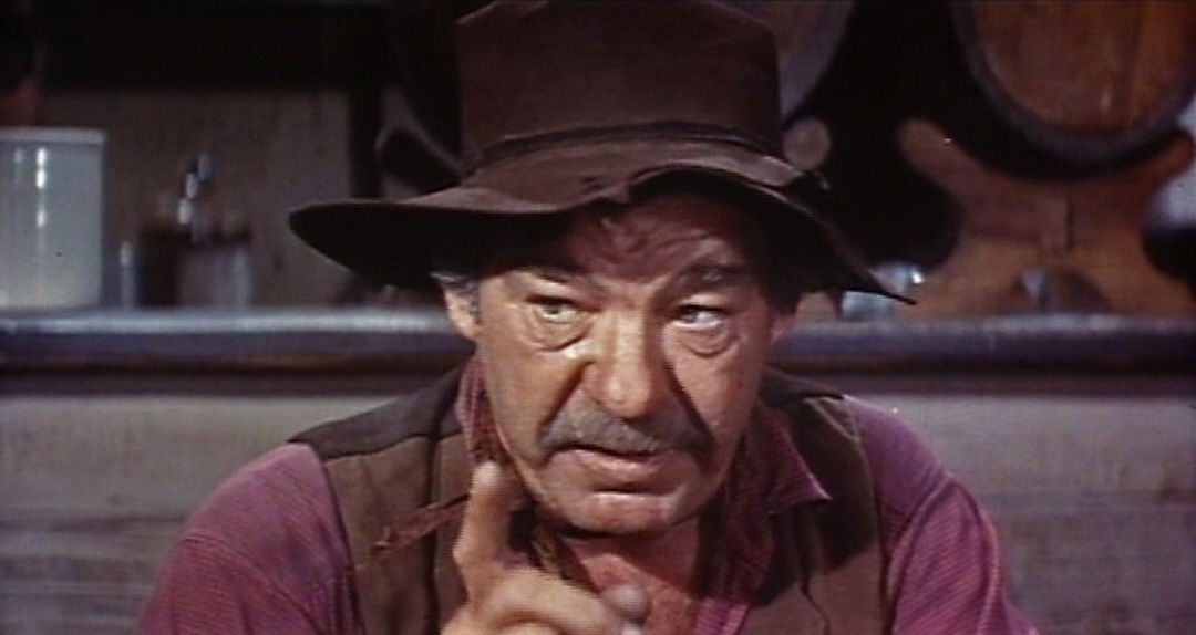 This image is a screenshot from a public domain trailer for the 1958 film, Money, Women and Guns. Trailers for movies released before 1964 are in the Public Domain because they were never separately copyrighted.